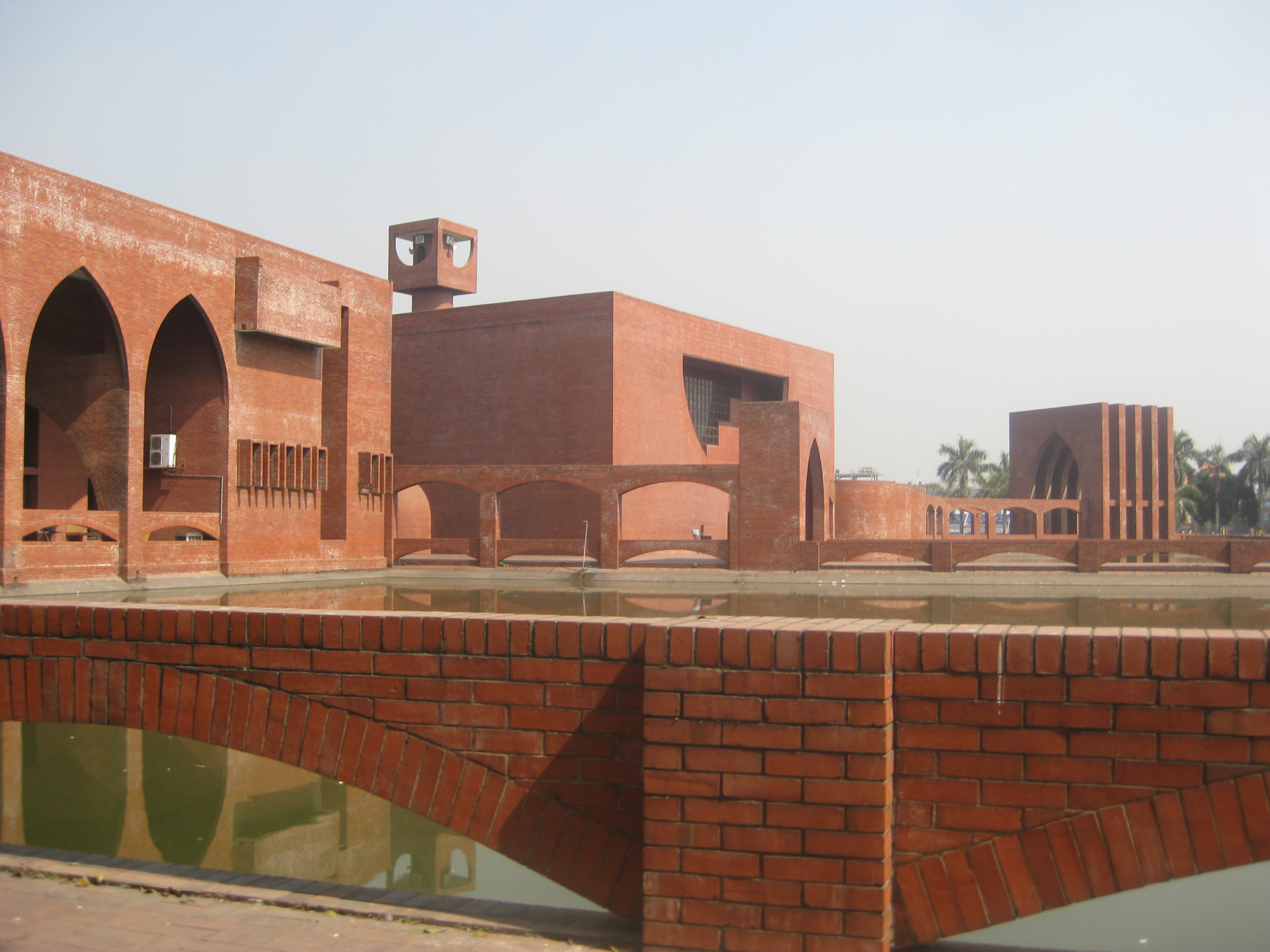 View of IUT at Gazipur, Bangladesh at February, 2014